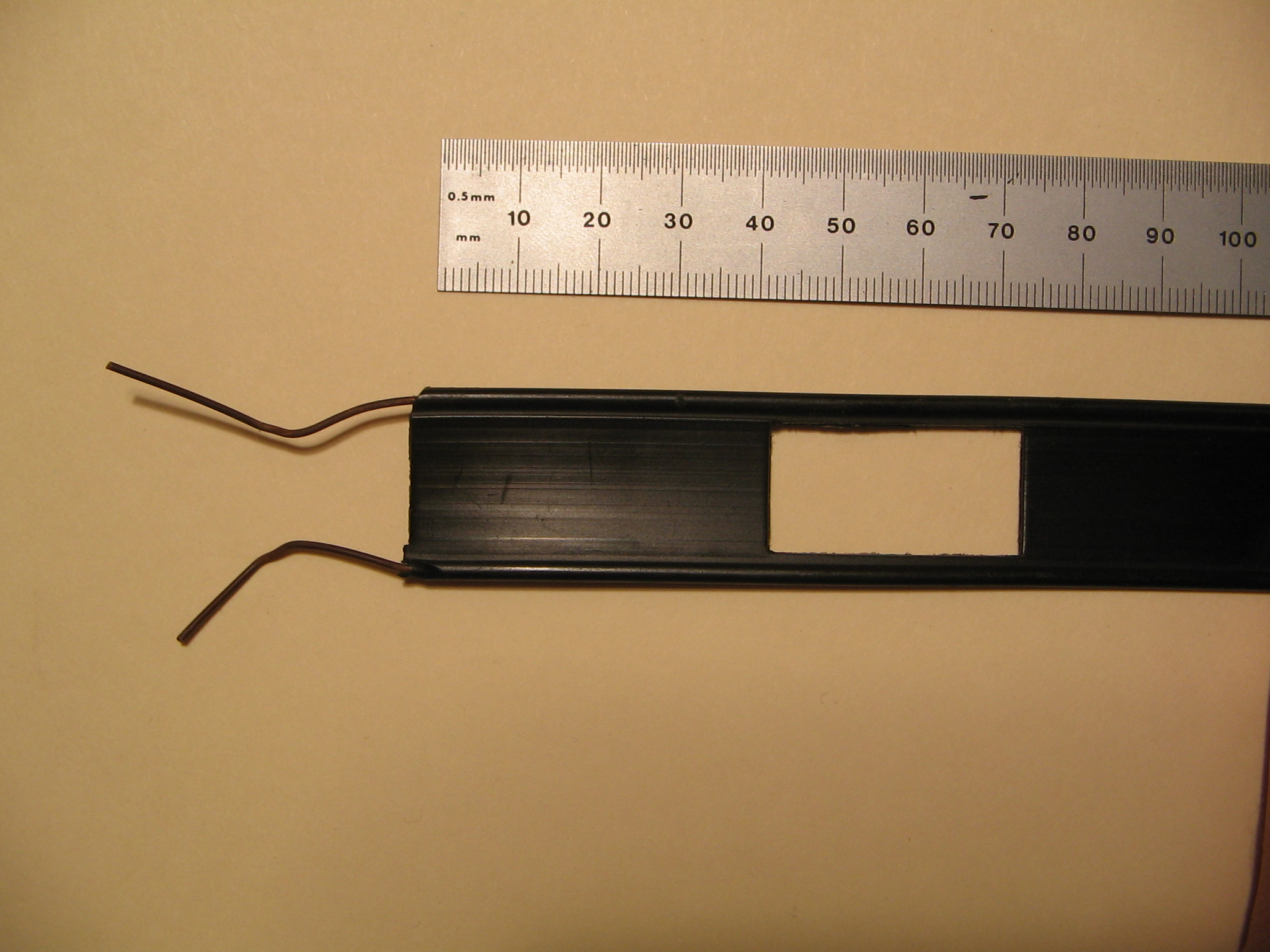 Ladder line, a variety of radio frequency transmission line.